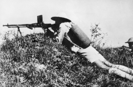 1942-01. THE CHINESE VICTORY AT CHANGSHA. AT CHANGSHA A CHINESE SOLDIER MOUNTS HIS SUBMACHINE GUN. HE IS ONE OF THE GROUND STAFF. THE PLANE IS A PART OF A NETHERLANDS FIGHTER SQUADRON IN MALAYA.